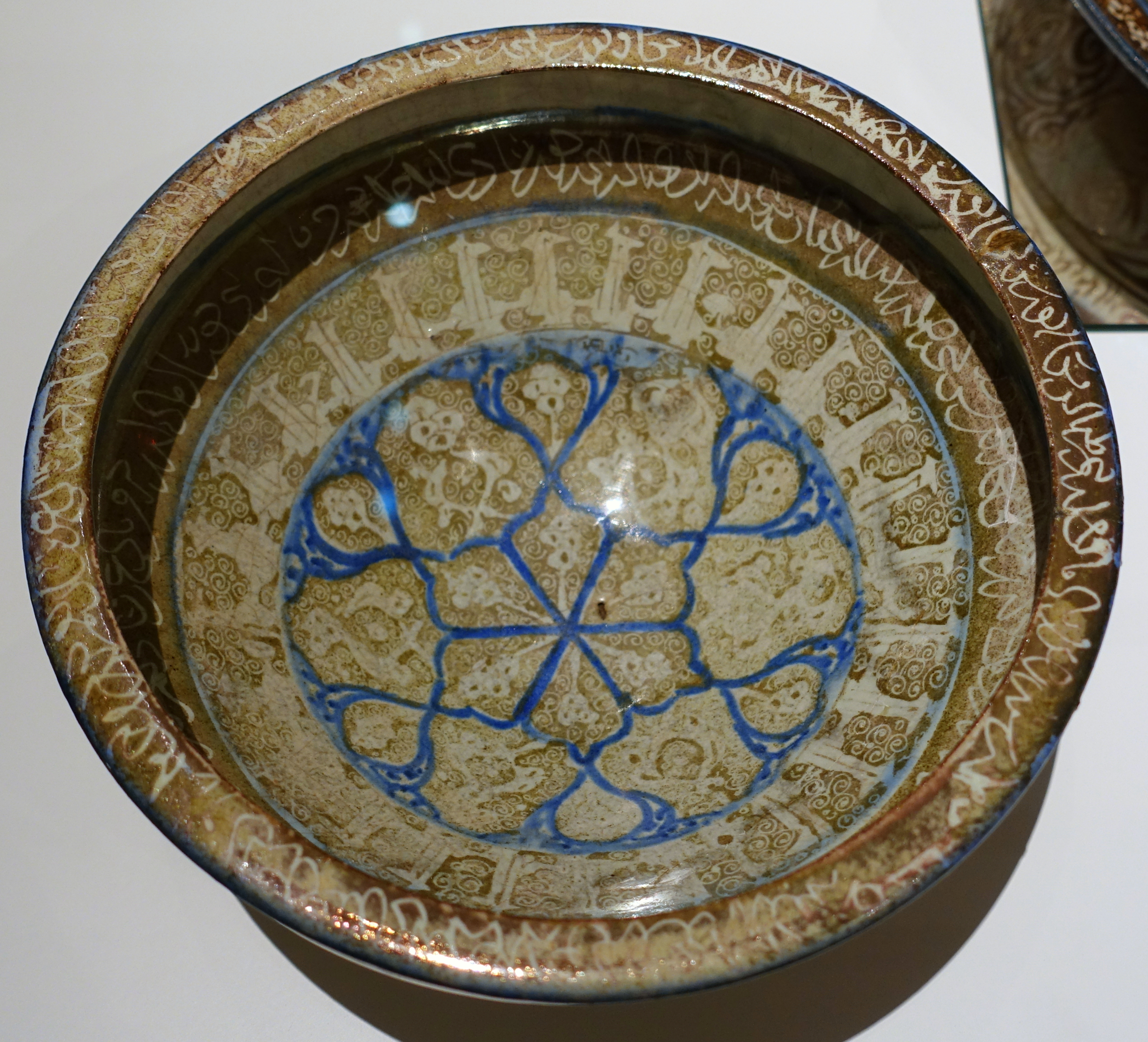 Exhibit in the Aga Khan Museum - Toronto, Canada. This work is old enough so that it is in the public domain.